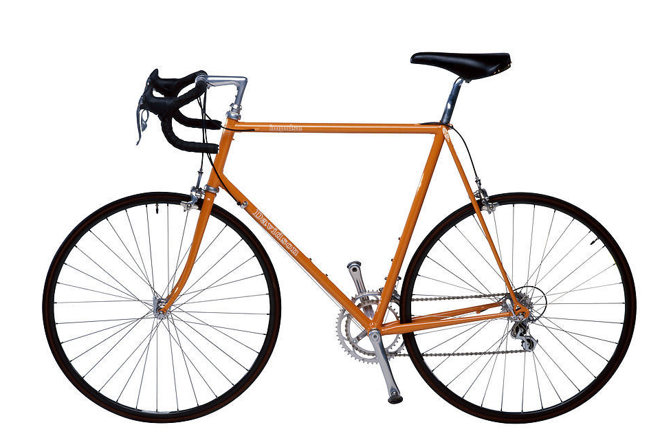 utility bicycles